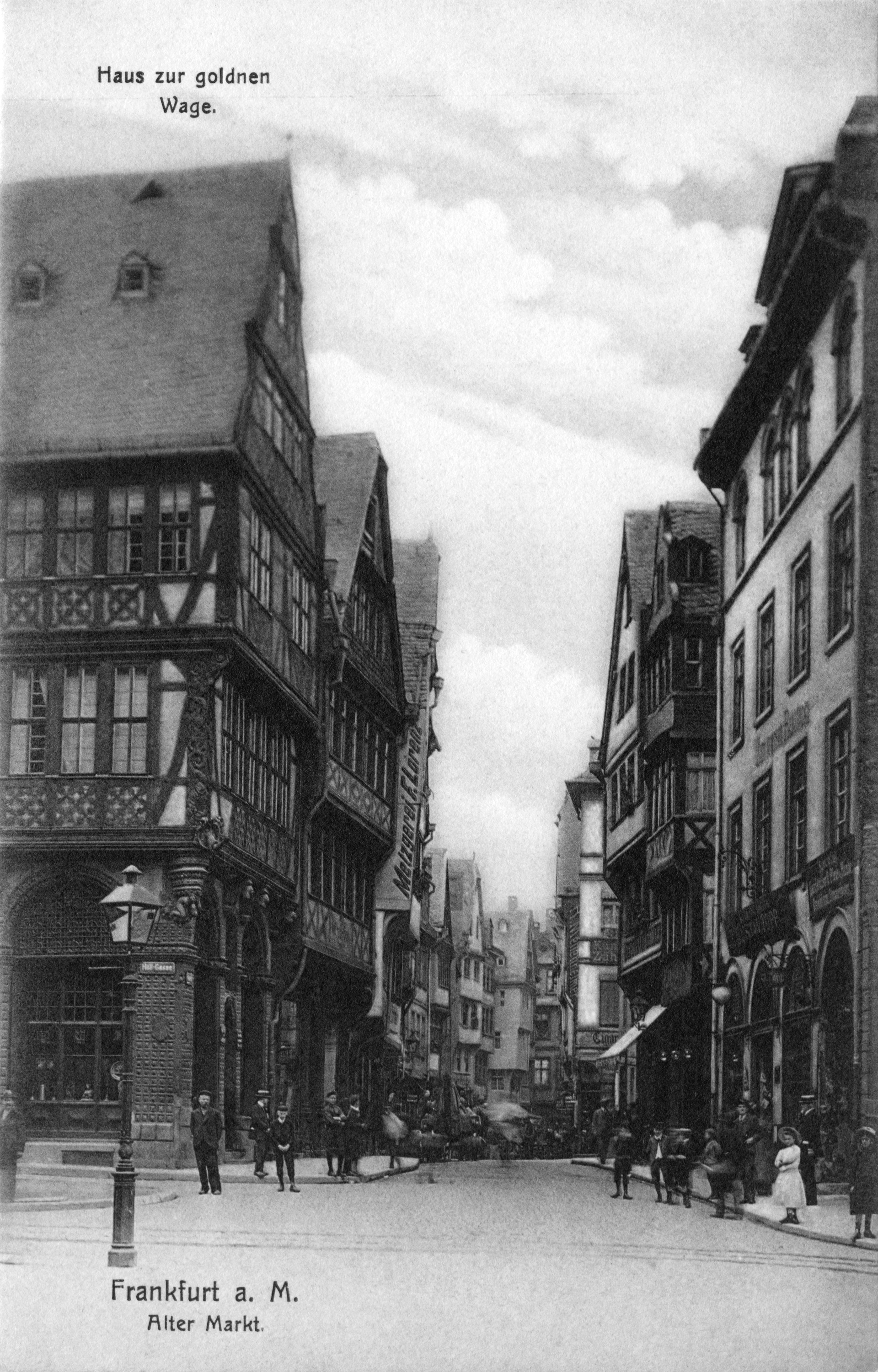 Frankfurt on the Main: Markt (Market) as seen from the Domplatz (Cathedral Square) to the west